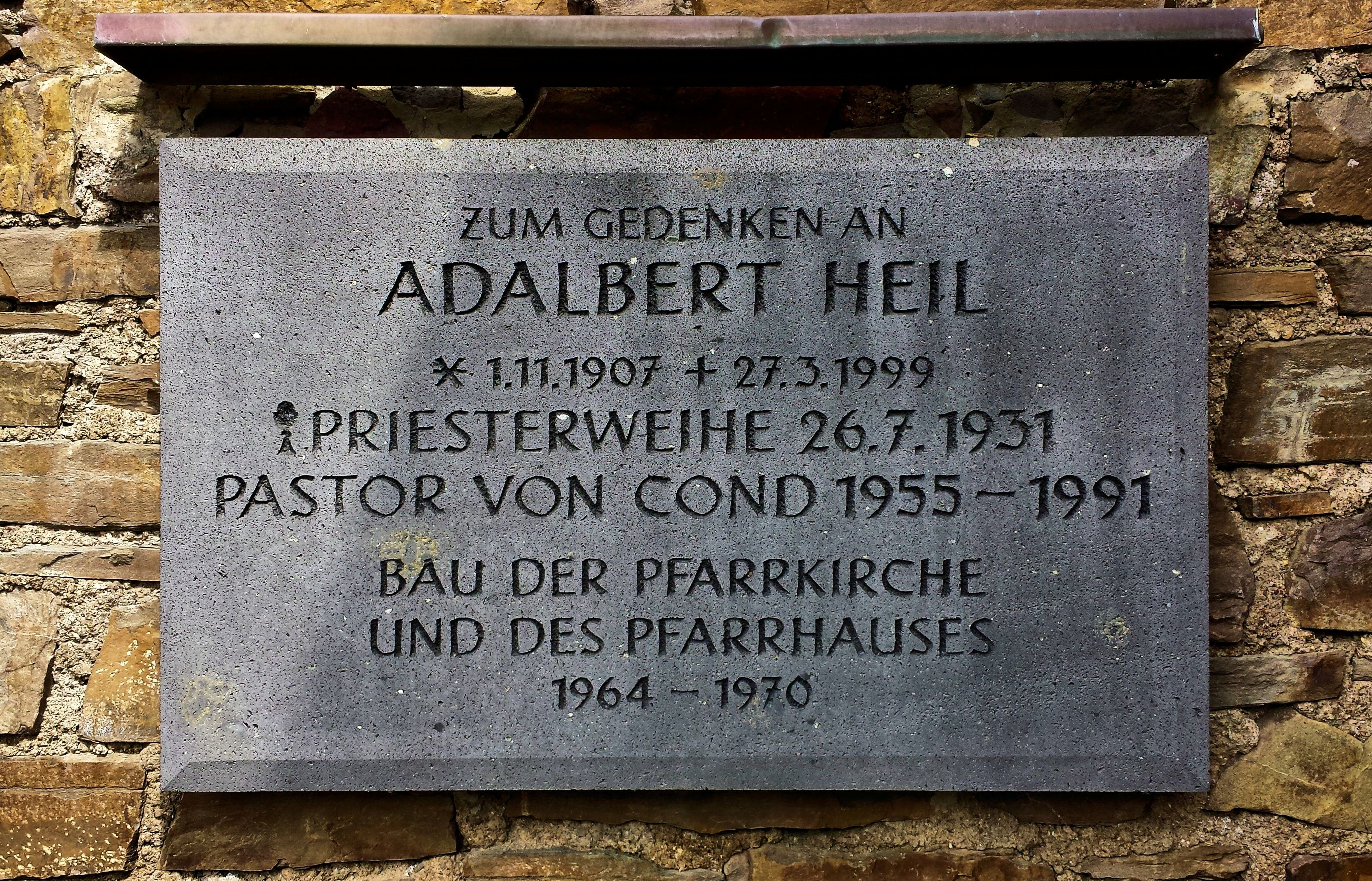 Memorial plaque of priest Adalbert Heil